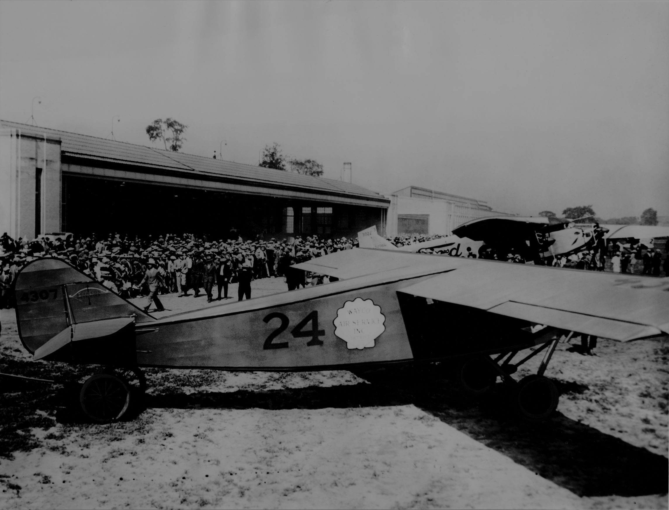 The National Air Tour for the Edsel B. Ford Reliability Trophy starts off with fourteen airplanes competing for a trophy offered by Edsel B. Ford. The airplanes will visit 25 cities and cover over 4,200 miles. Thousands, among them Henry Ford and his son Edsel, witnessed the start of the tour. A Stinson Detroiter is in the foreground. Dated June 28, 1927 Collection of Gordon Rapp. All Rights Reserved. Photos may not be duplicated or used for commercial purposes without express written consent.